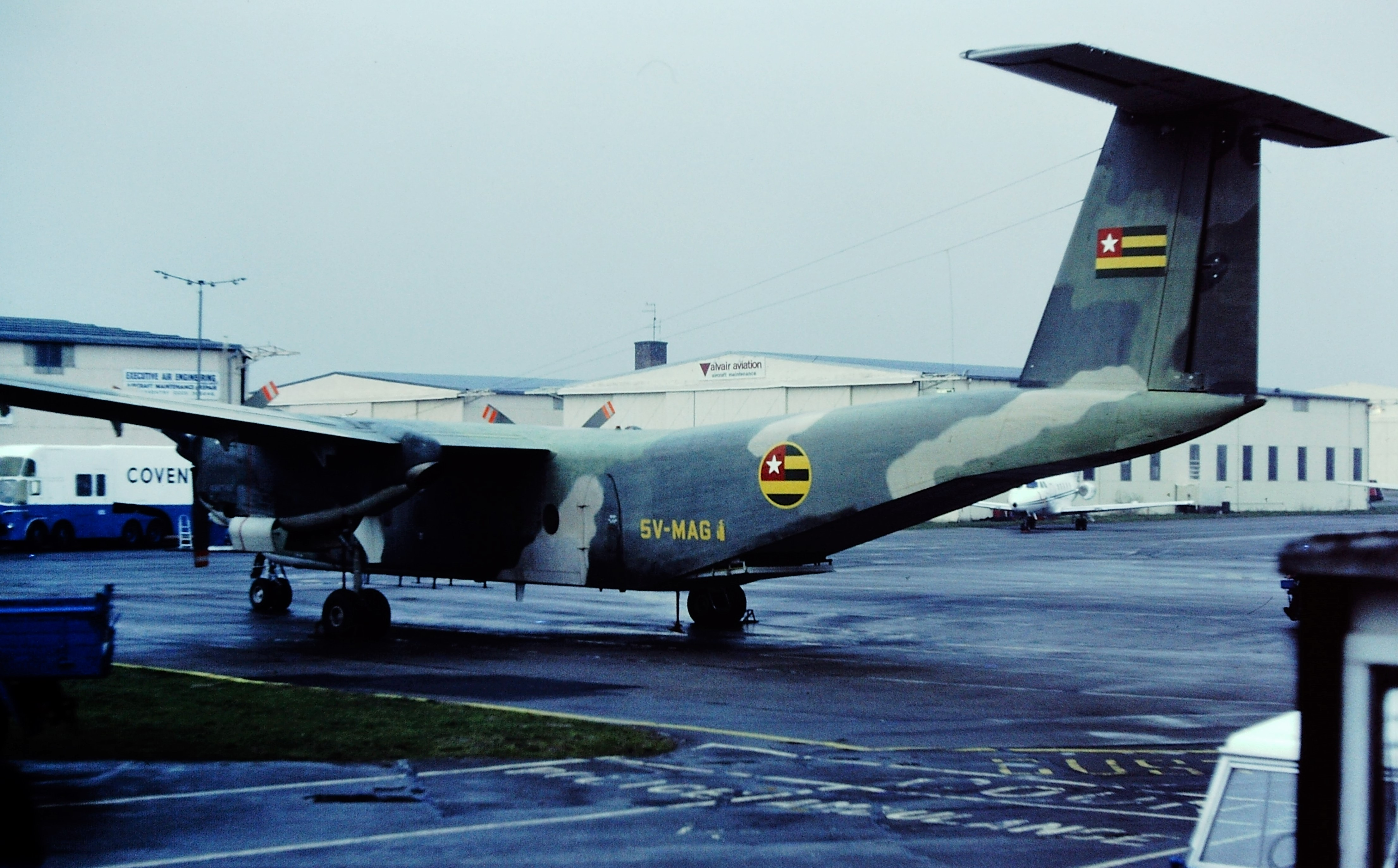 5V-MAG D.H. Buffalo Togo Air Force Coventry 05-04-1982